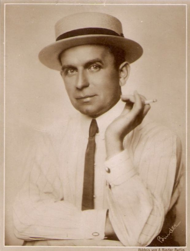 Viggo Larsen, danish actor and director